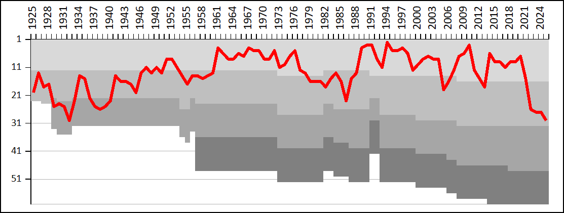 A chart showing the progress of Örebro SK through the Swedish football league system. Horizontal black lines represent league divisions.